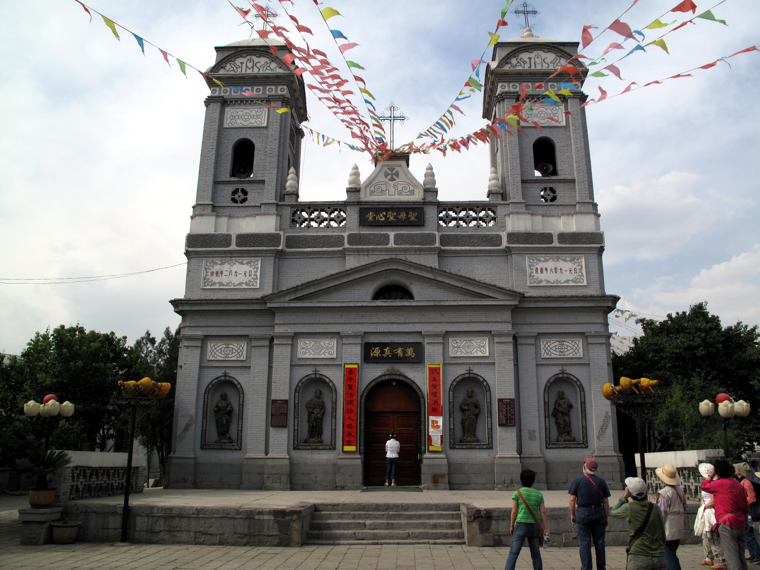 Cathedral Of The Immaculate Heart Of Mary. Datong The small cathedral in Datong was consecrated in 1891, burnt in 1900, rebuilt in 1906, destroyed in 1970, and rebuilt again in 1982, a mirror of the vicissitudes of Christianity in China.